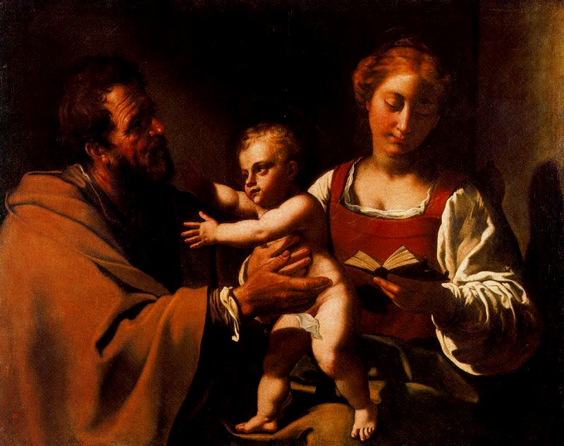 The Holy Family